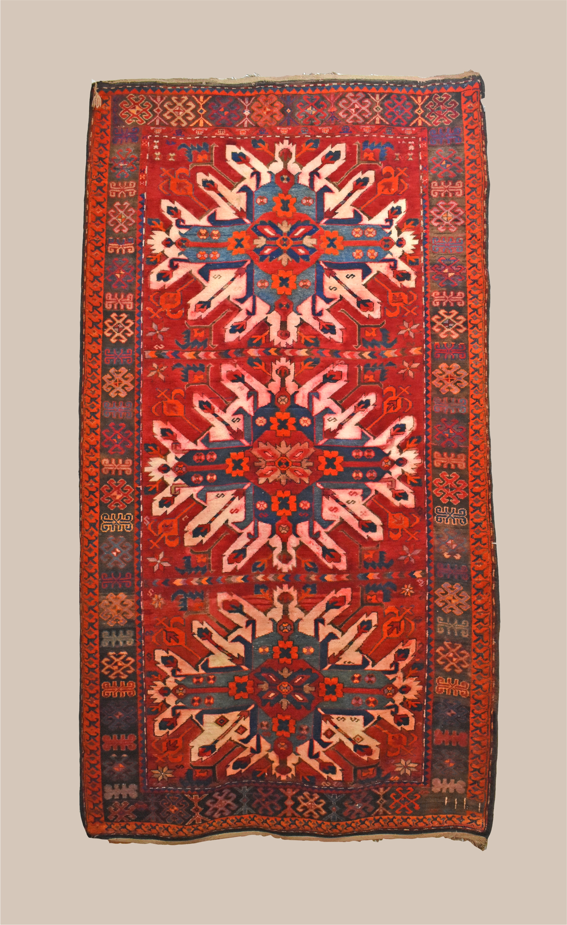 Eagle carpet, 20th century, Arpi village